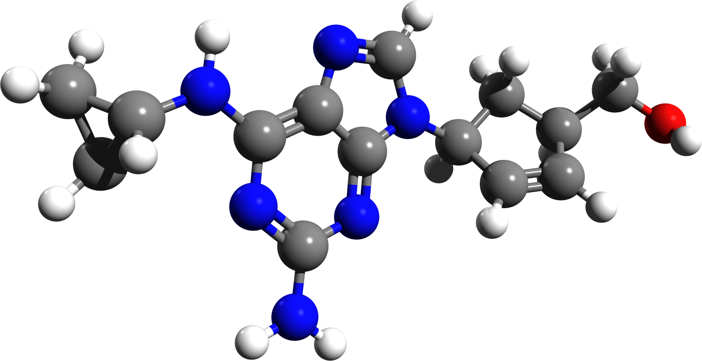 Abacavir structure